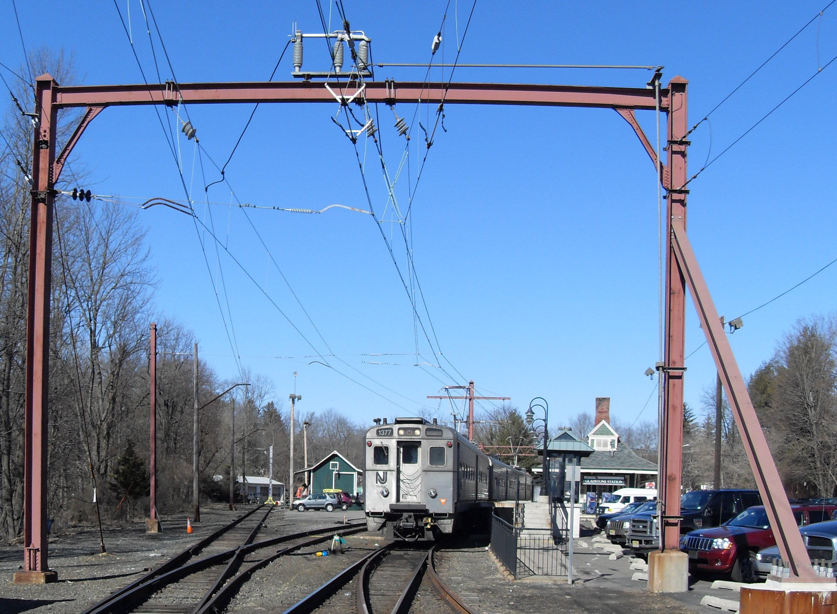 Terminal of the Gladstone Line, NJ Transit